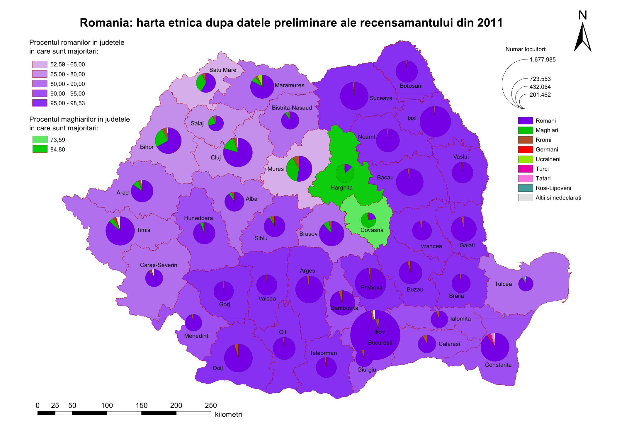 Ethnic map of Romania according to the 2011 census.